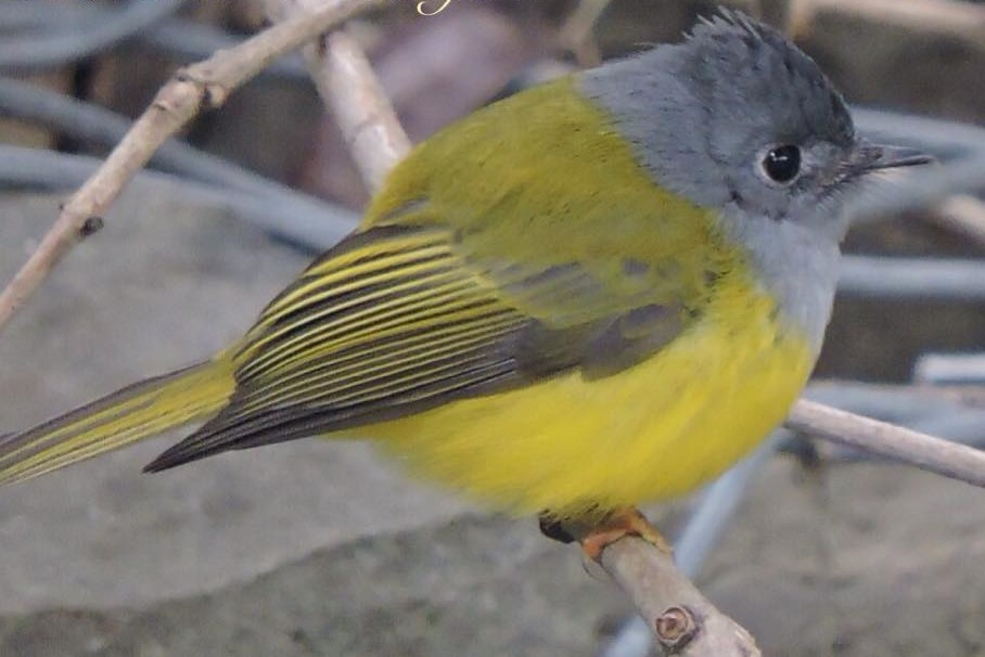 Grey-headed canary-flycatcher, Traaffic Park, Chandigarh, India.